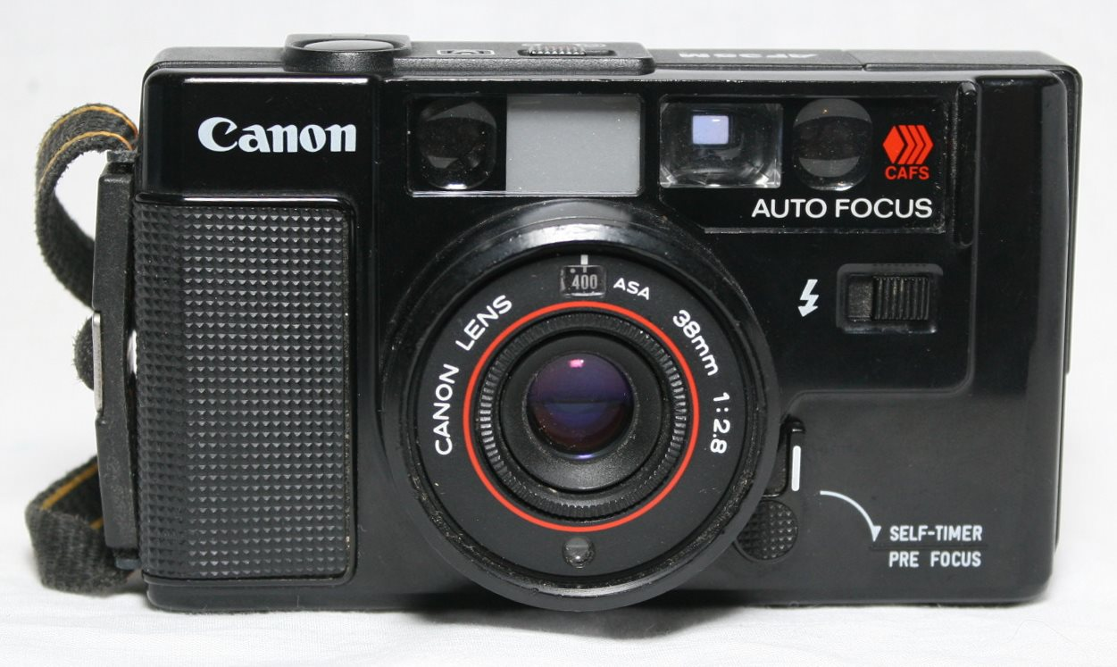 The original sureshot. Bought by my mother in c1980 - her favorite camera.